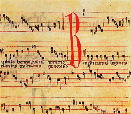 from Codex Las Huelgas, an important Spanish music manuscript